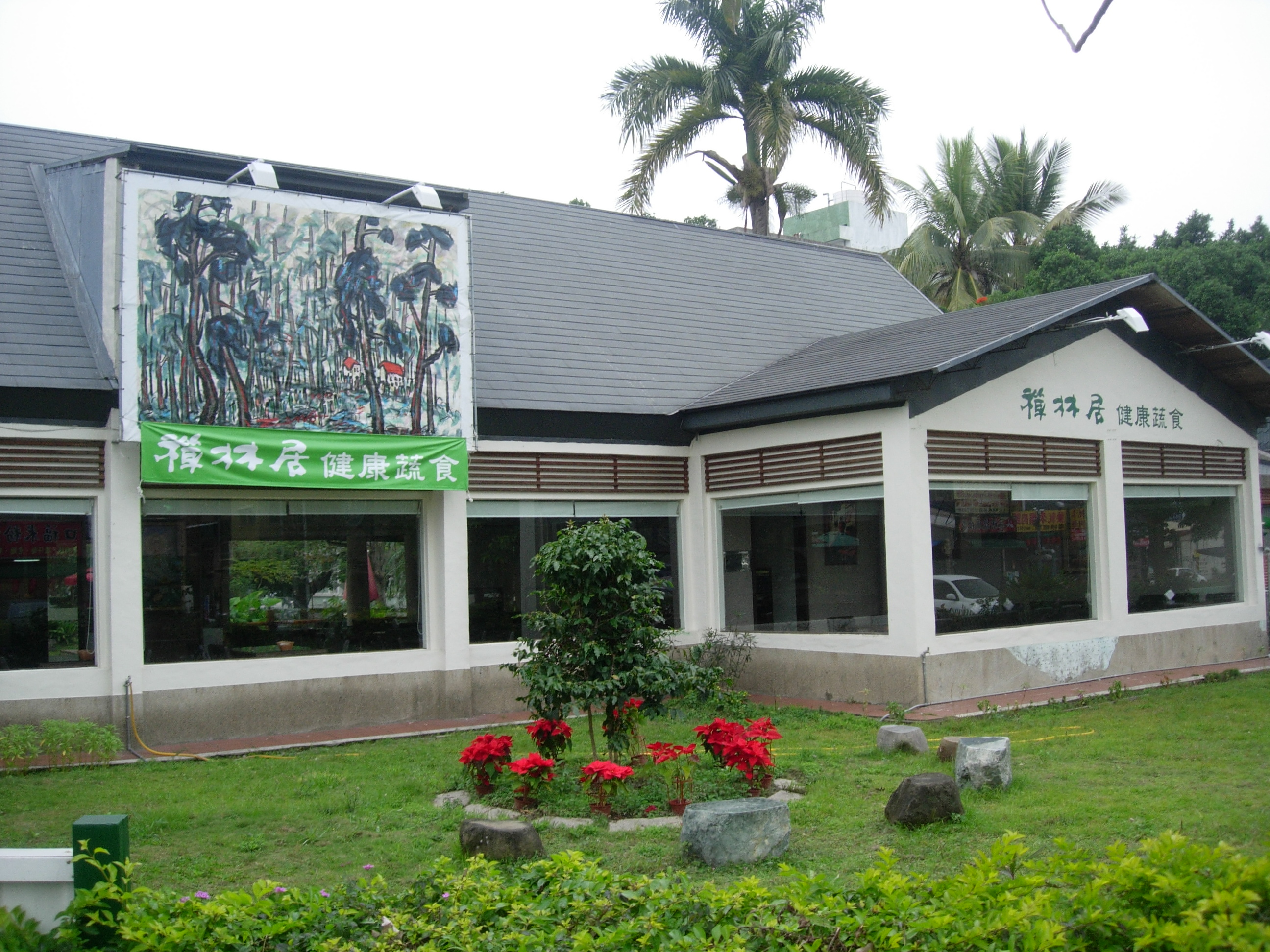 Back of Jufang Hall of Nantou city